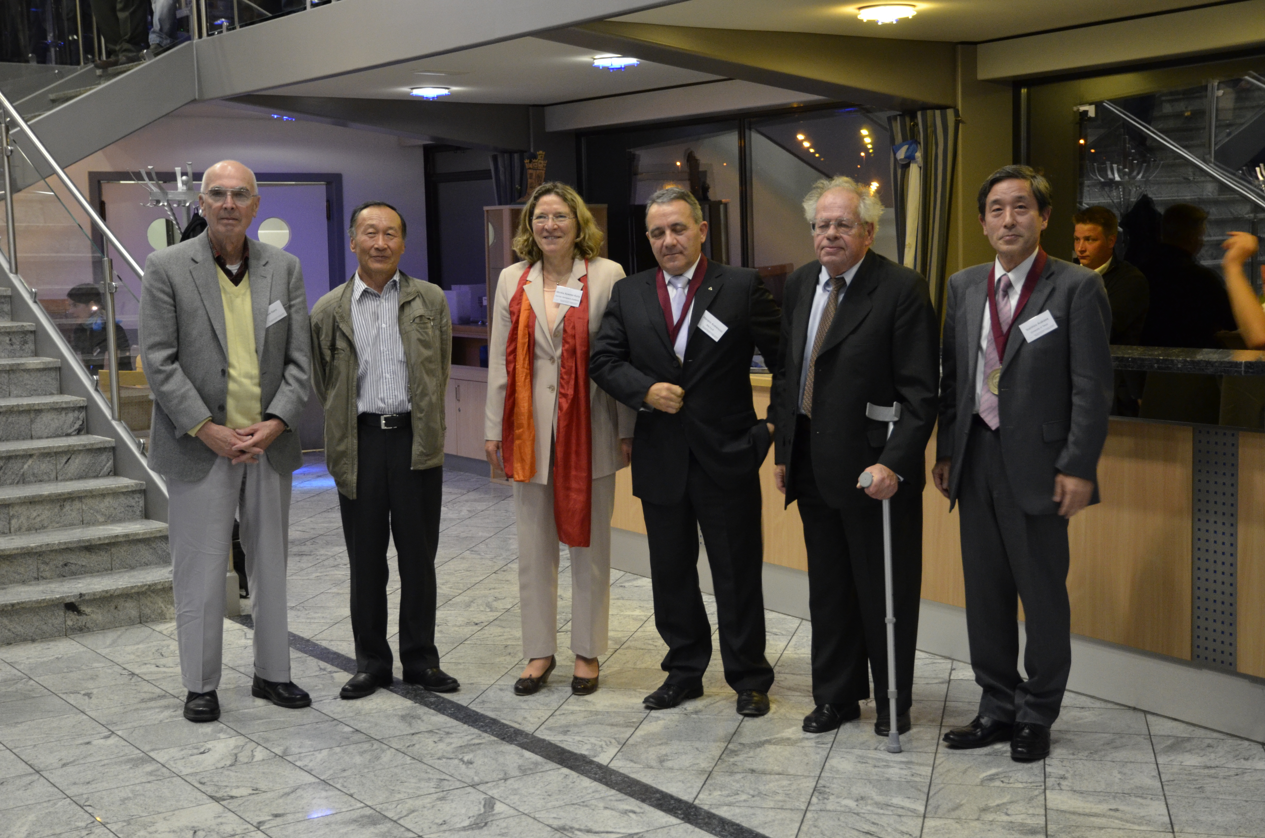 Recipients of the Stuhlinger Medal during the Award Ceremony at the 32nd International Electric Propulsion Conference (IEPC 2011). From left to right: David "Dave" C. Byers, Vladimir Kim (also representing Askold Zharinov), Monika Auweter-Kurtz, Mariano Andrenucci, Horst Löb, and Yoshihiro Arakawa. The ceremony was held aboard the ship "Rhenus" on the Rhine river downstream from Rüdesheim.